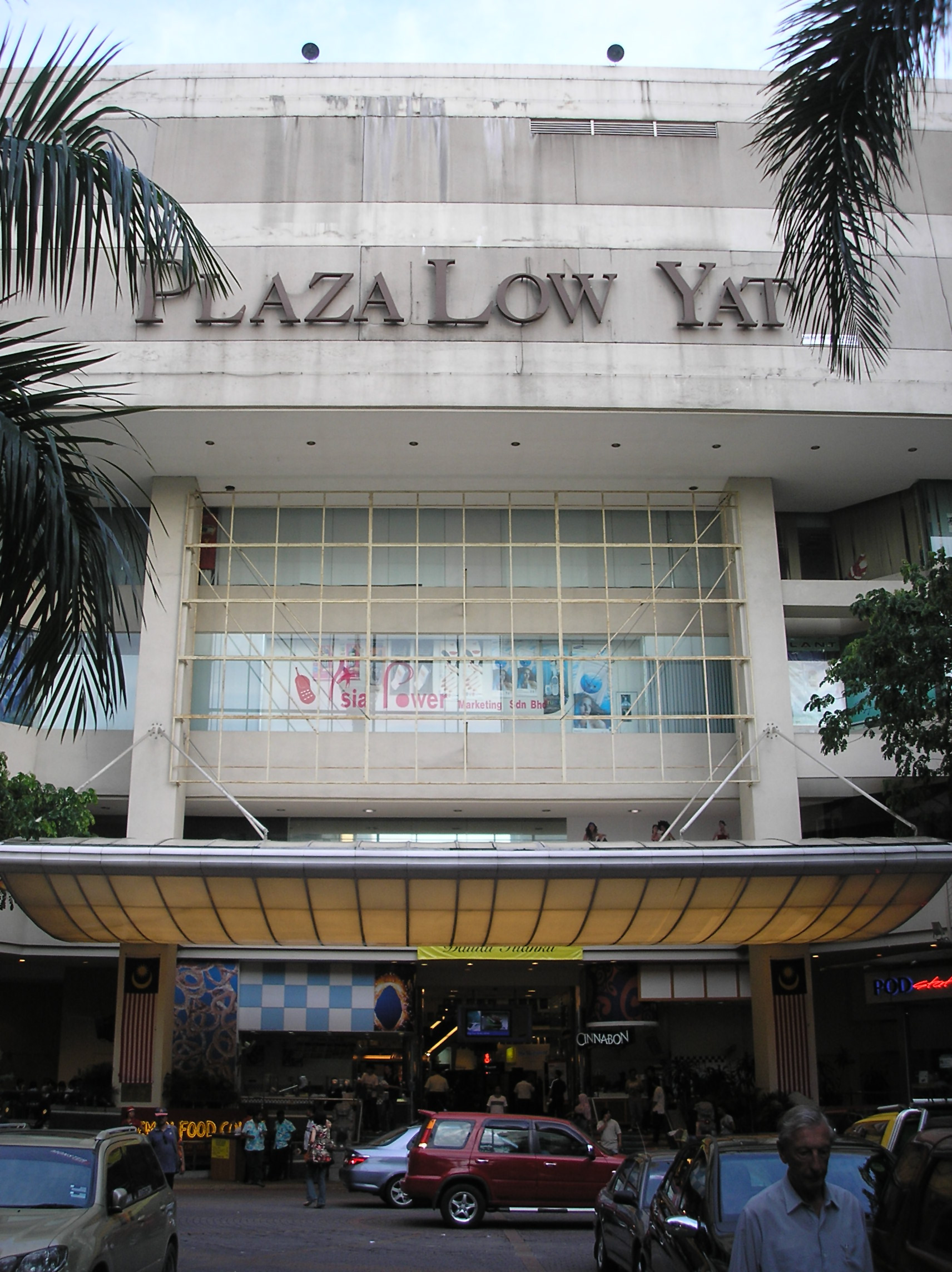 The northwestern exit of the Low Yat Plaza shopping mall at Imbi in Kuala Lumpur, Malaysia.